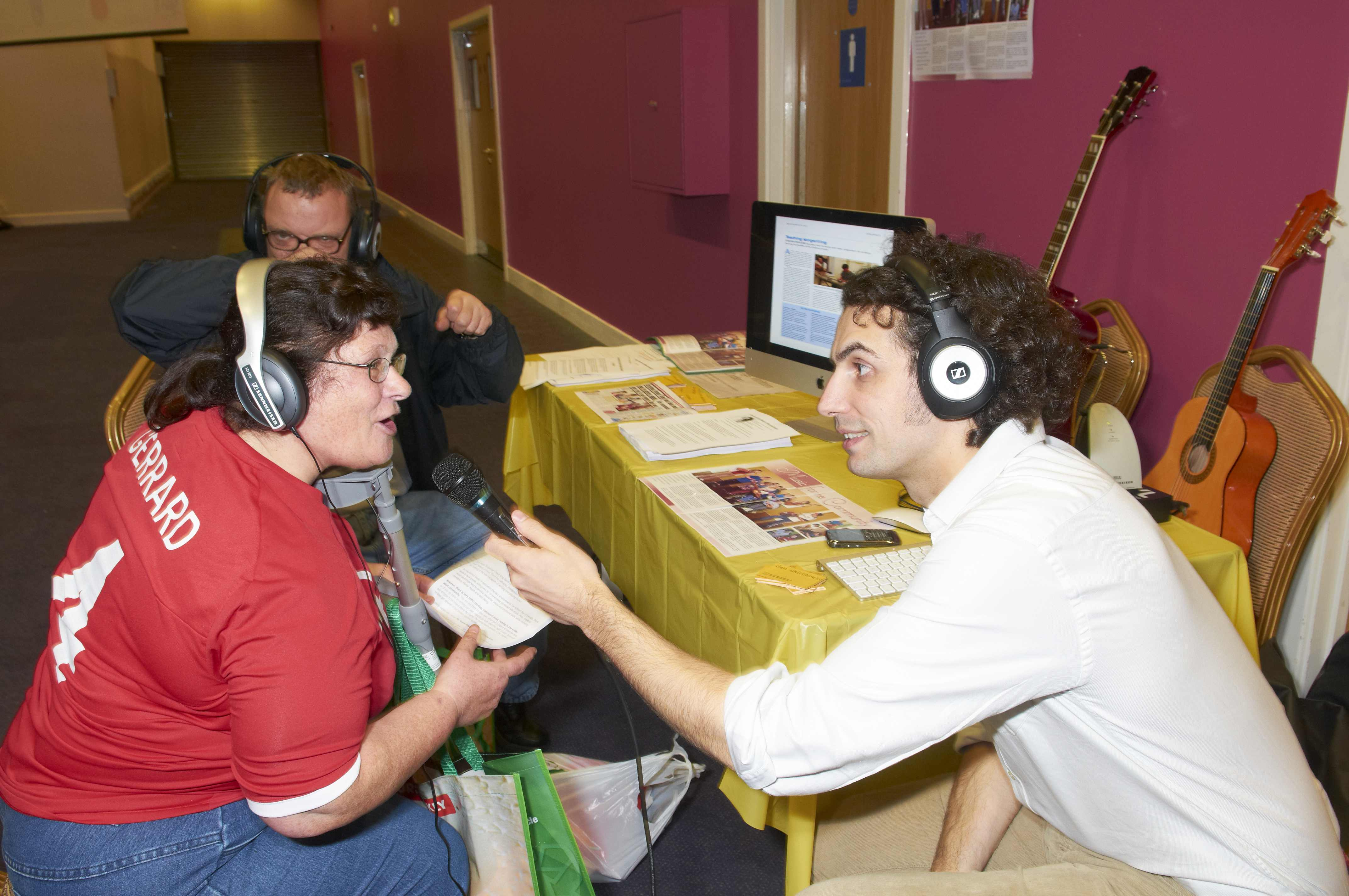 Opportunities Fair and Beyond Art Exhibition 21 June 2012, New Bingley Hall, Hockley. This free event was aimed at people with learning disabilities, physical disabilities, mental health difficulties, autism, visual and hearing impairments, adults 65 or over, and all carers, to find out what services, support and opportunities are available to them. The exhibition also showcased artwork from people who have learning or physical disabilities, mental health difficulties, autism, visual and hearing impairments and adults 65 or over.